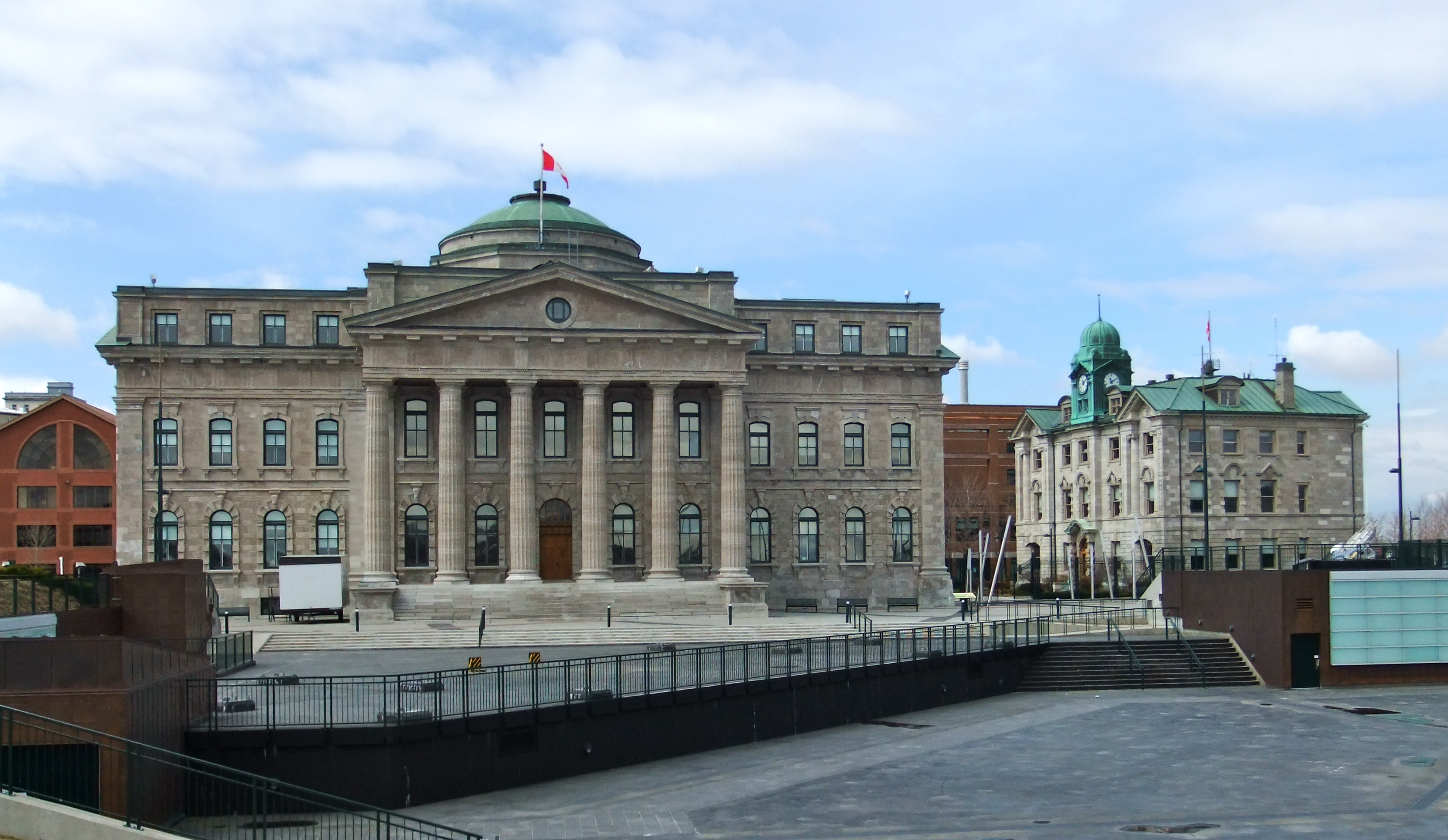 The new custom house and the Quebec Port Authority Building, Quebec City